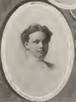 A small portrait in an oval frame, the subject is a young white woman wearing a high-collared white blouse. Her hair is parted and dressed back.